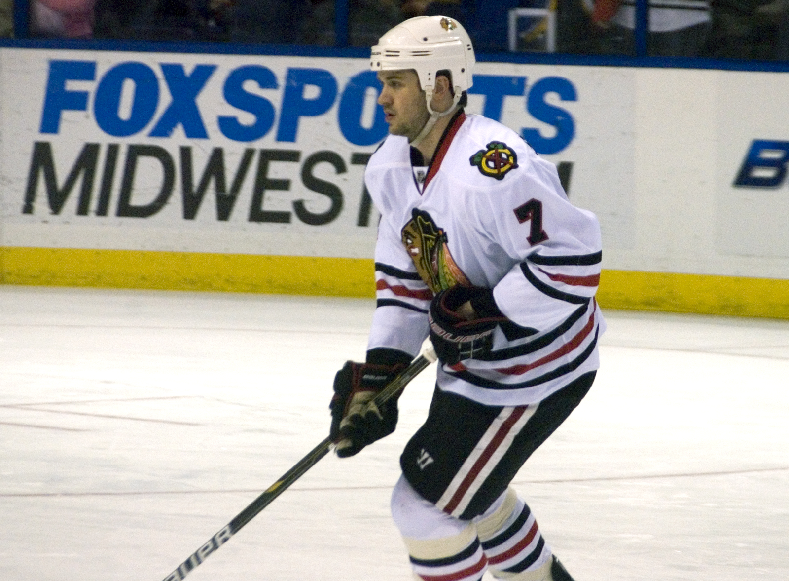 ERI_4852 St. Louis Blues vs. Chicago Blackhawks National Hockey League - 2010–11 NHL season. Photos taken by Sarah Connors on February 21, 2011. Blues lost, 5-3.